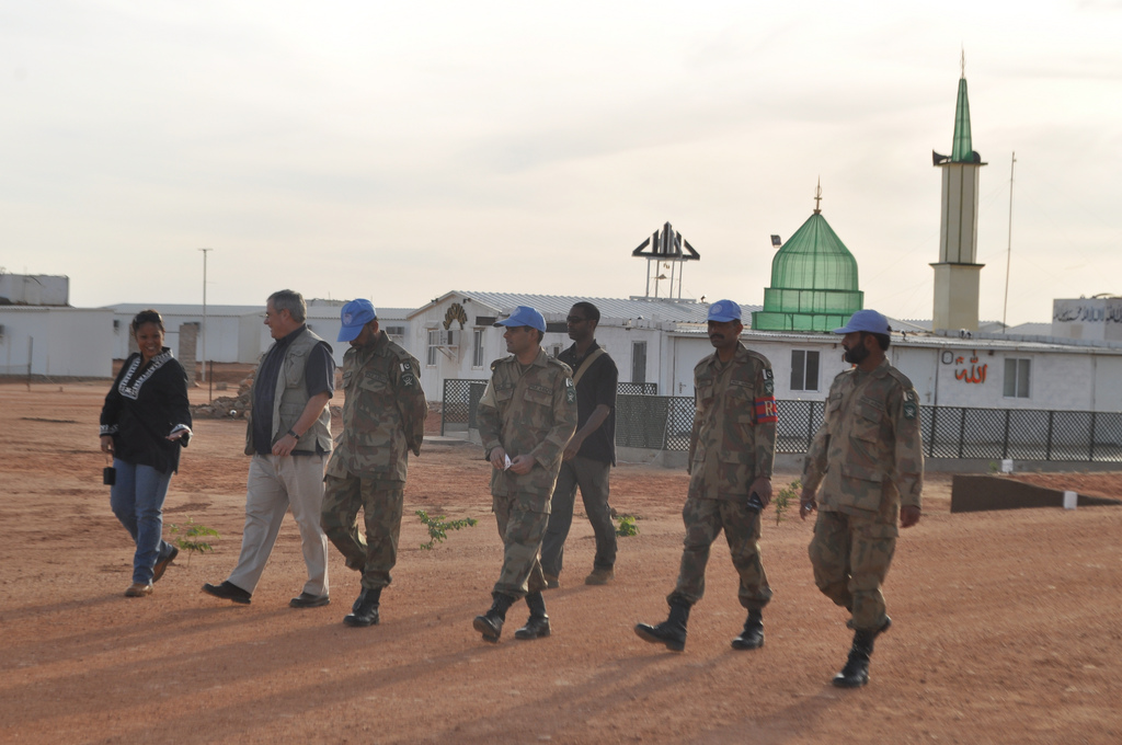 SE Gration is given a tour of a portion of a UNAMID compound in West Darfur by his hosts, a battalion of engineers from Pakistan.